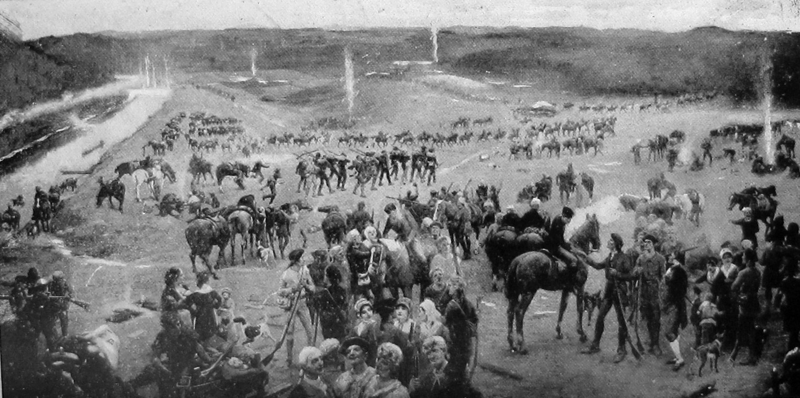 Black and white reproduction of artist Lloyd Branson's Gathering of Overmountain Men at Sycamore Shoals, which depicts the gathering of the Overmountain Men en route to their victory over British loyalist forces at the Battle of Kings Mountain in 1780.